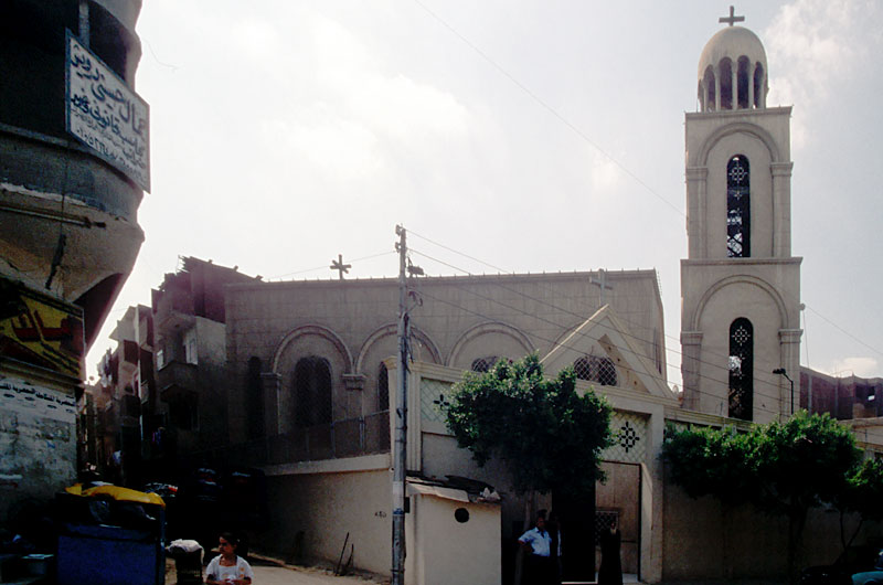 Church of St. George in Bilbeis, north side, Egypt